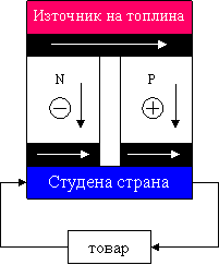 A diagram of a thermoelectric generator, with labels in an unknown language.